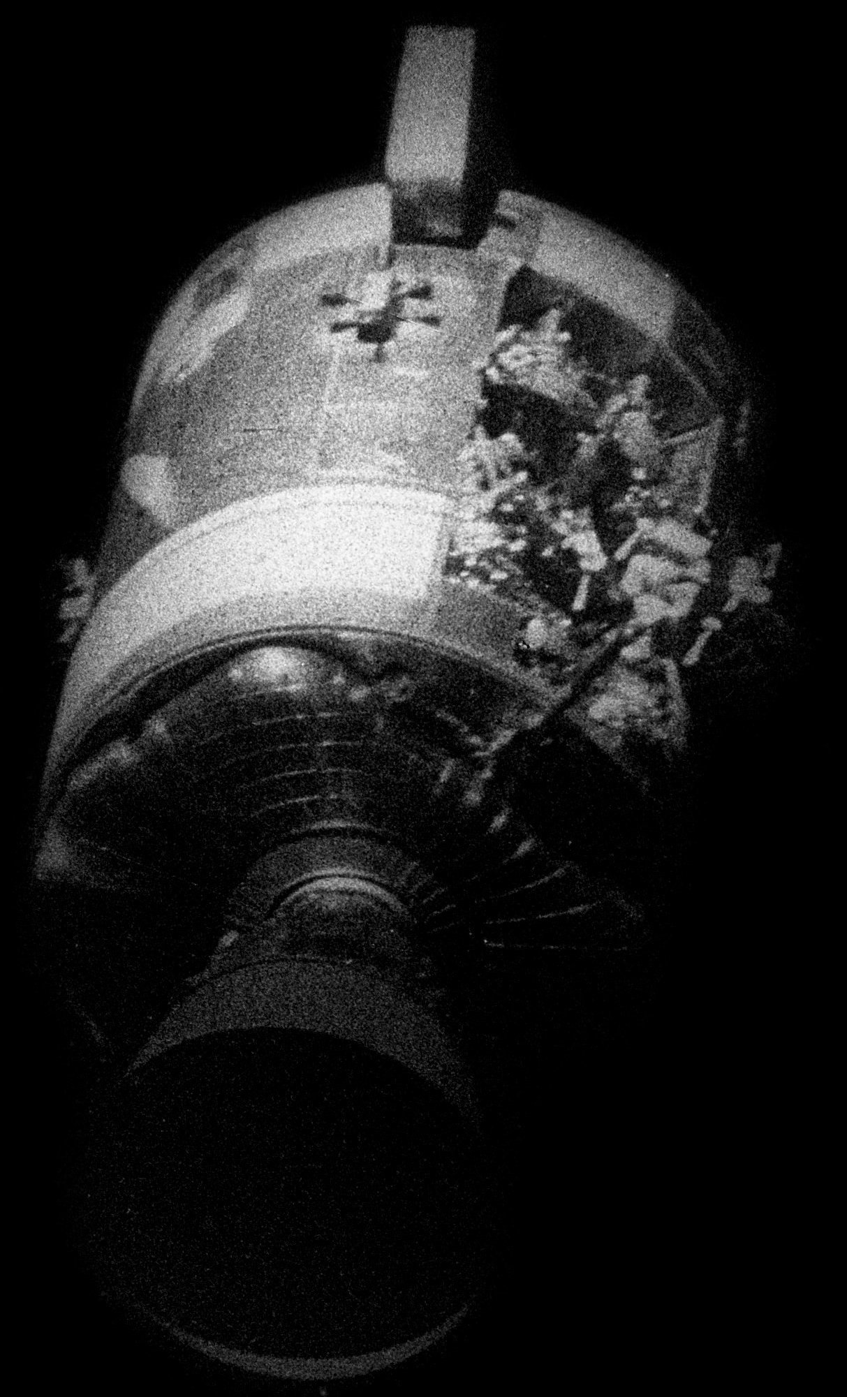 Apollo13 - view of the crippled Service Module after separation.